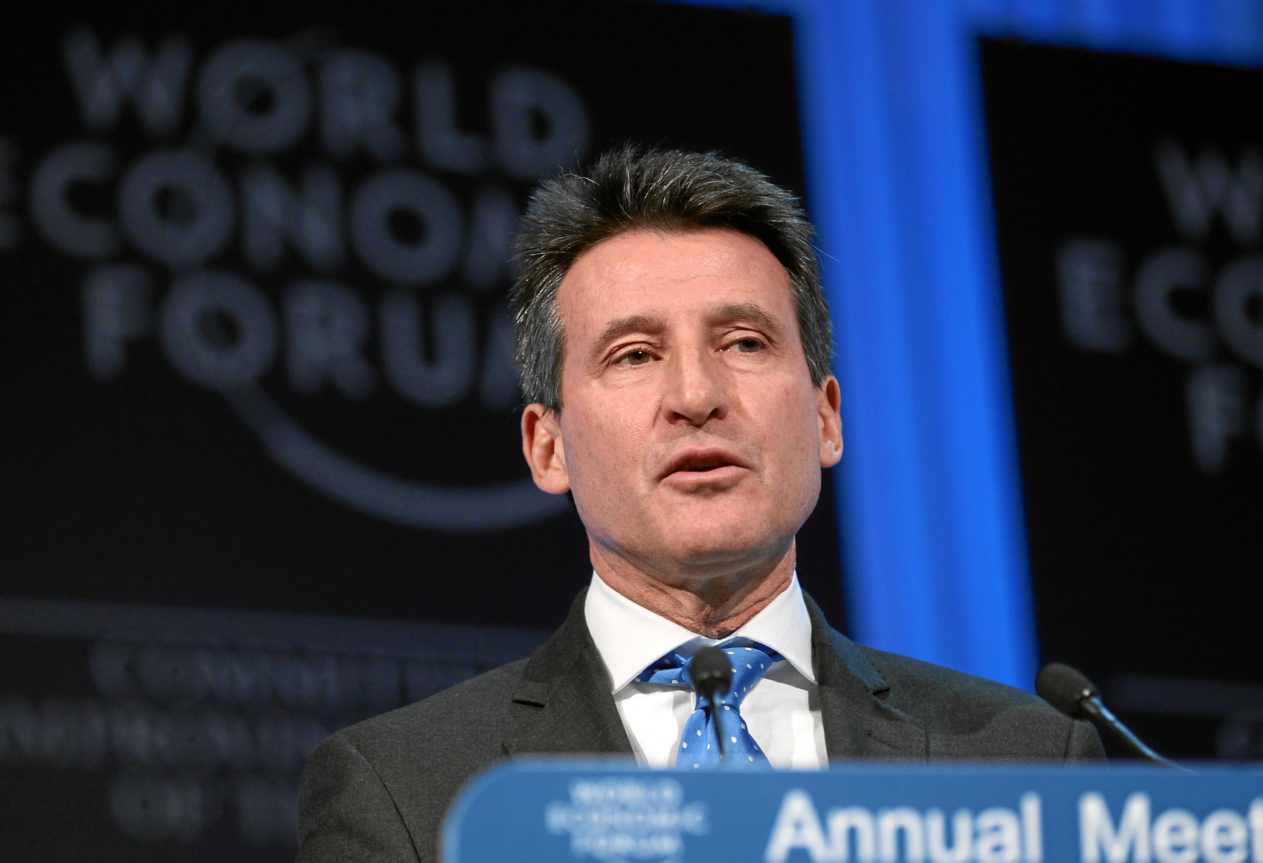 DAVOS/SWITZERLAND, 26JAN12 - Lord Coe, Chair, London Organising Committee of the 2012 Olympic Games and Paralympic Games (LOCOG), United Kingdom captured during the session 'Special Address' at the Annual Meeting 2012 of the World Economic Forum at the congress centre in Davos, Switzerland, January 26, 2012.. . Copyright by World Economic Forum. by Moritz Hager